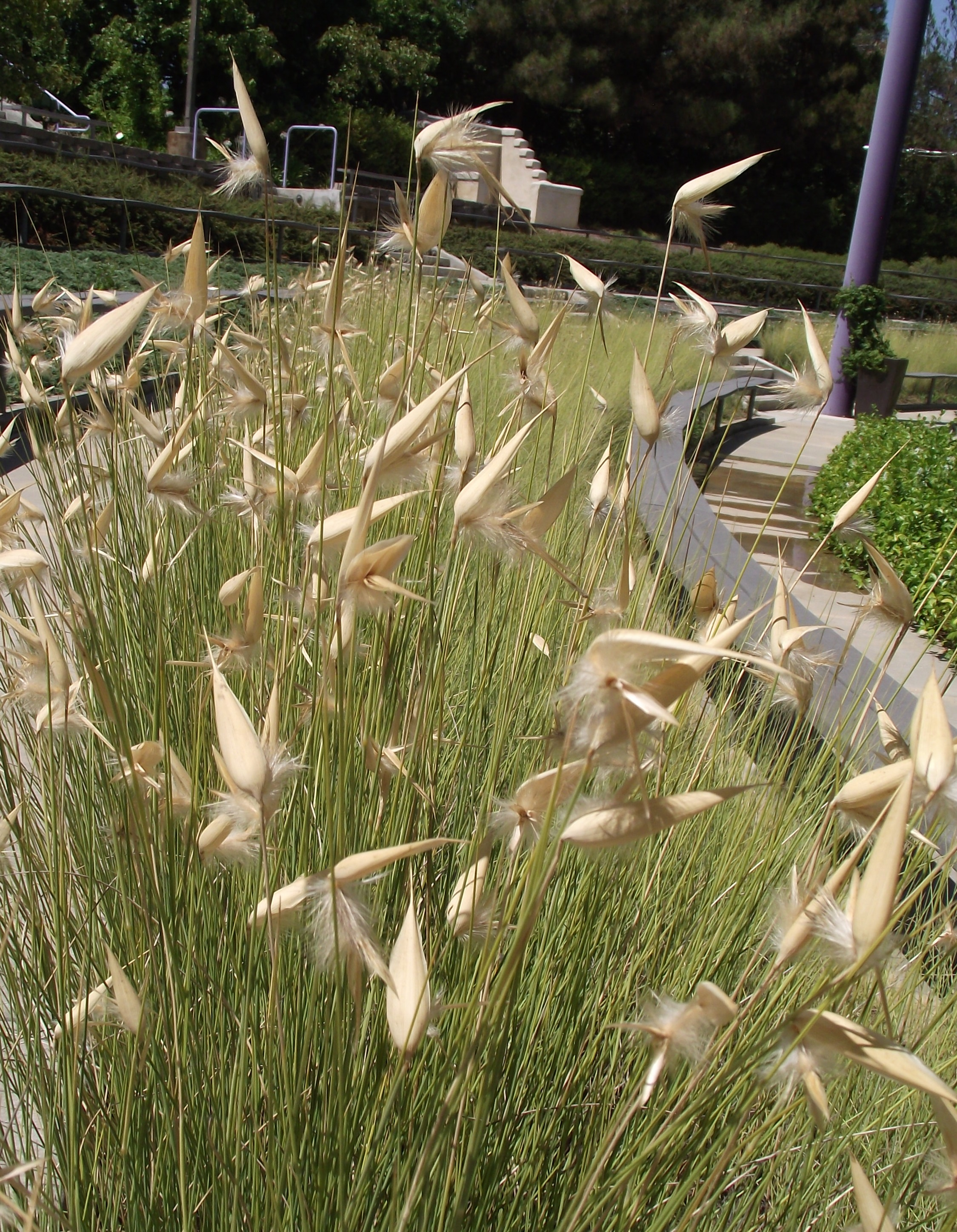 Lygeum spartum at the Water Conservation Garden, Cuyamaca College, El Cajon, California, USA